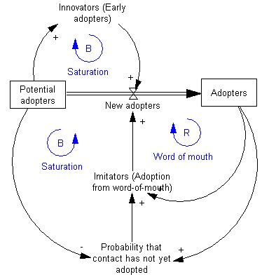 Stock and flow diagram of adoption Diagram created by contributor, from article by John Sterman (2001) Systems dynamics modeling: tools for learning in a complex world, California management review, Vol 43 no 1, Summer 2001